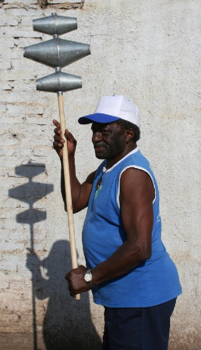 Masacalla, with three parts, belonging to the "Comparsa Negros Argentinos" of "Misibamba Association". Afro-Argentine community in Buenos Aires. (Photo: Pablo Cirio, Merlo, 2008).